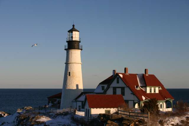 Portland Head Light sits near dusk on a winter day.